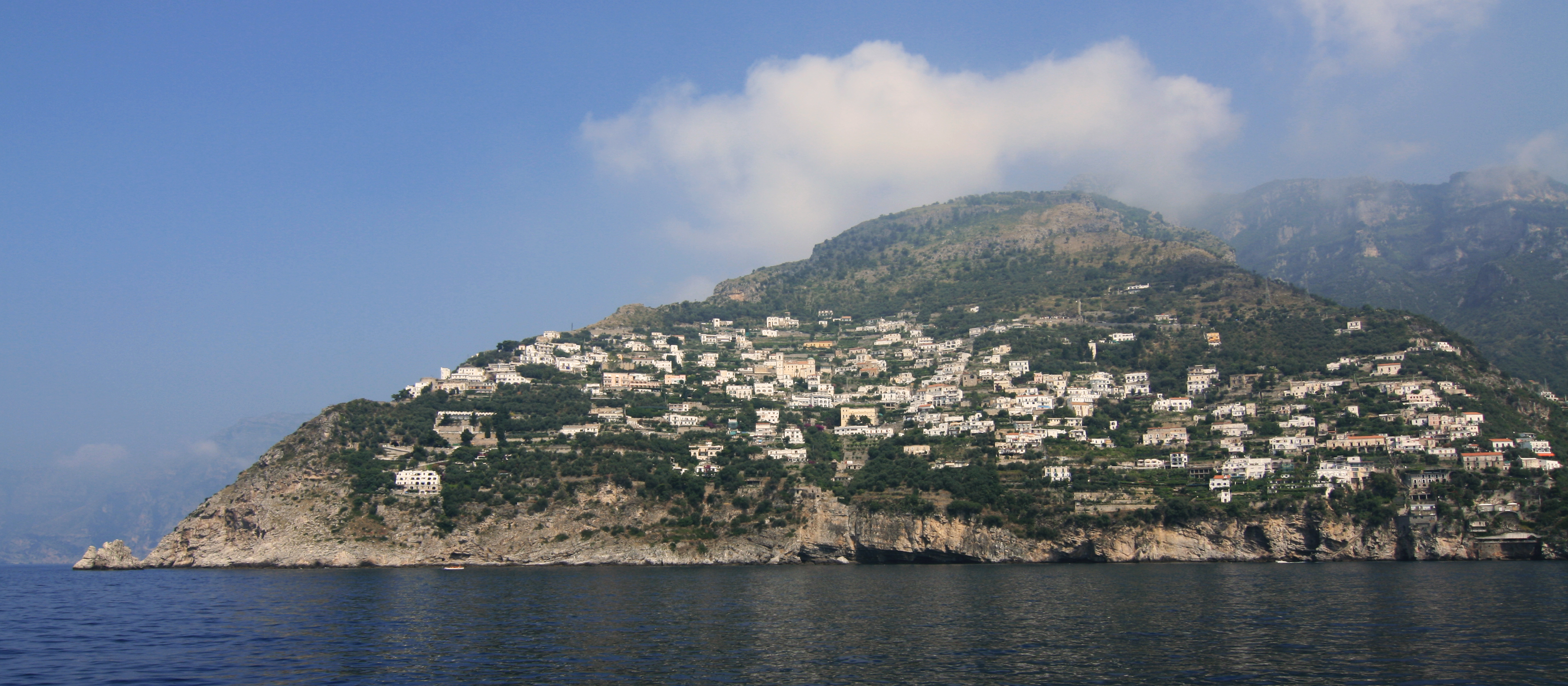 Praiano, Province of Salerno, Italy.